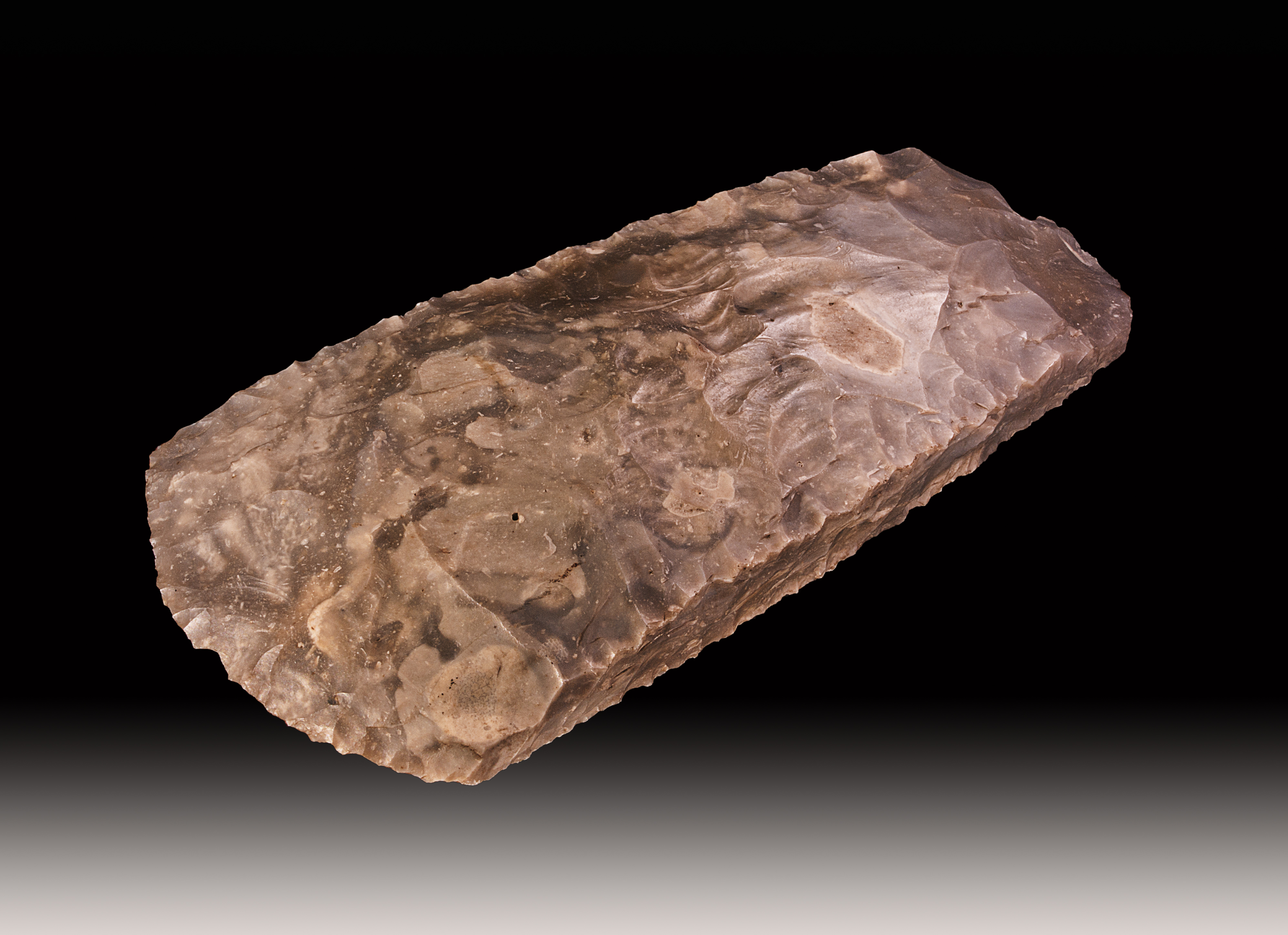 Preform for a polished ax